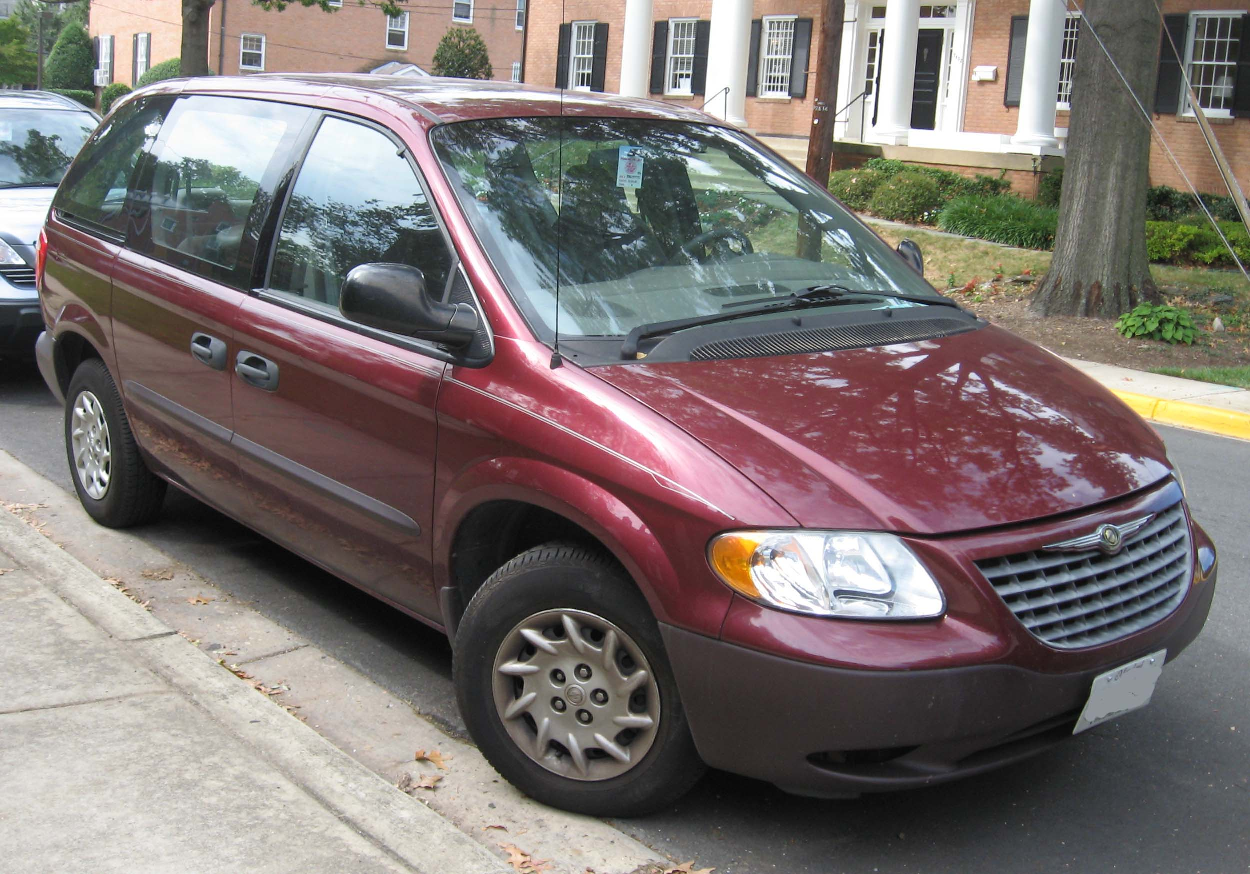 2001-2003 Chrysler Voyager photographed in College Park, Maryland, USA.